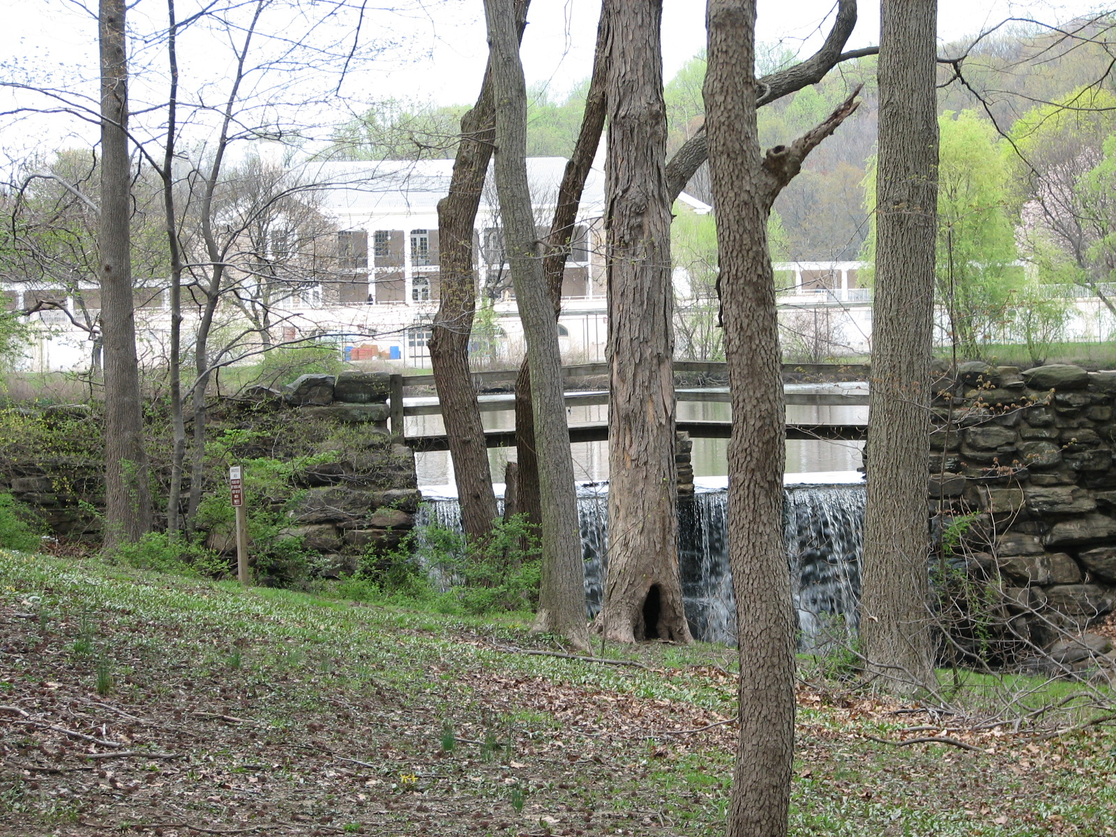 Photo of Tibbett's Creek and waterfall with park administration building in background.